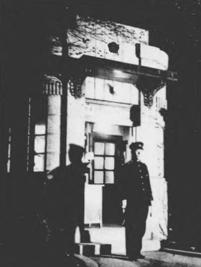 A koban with a police officer standing outside (1938).